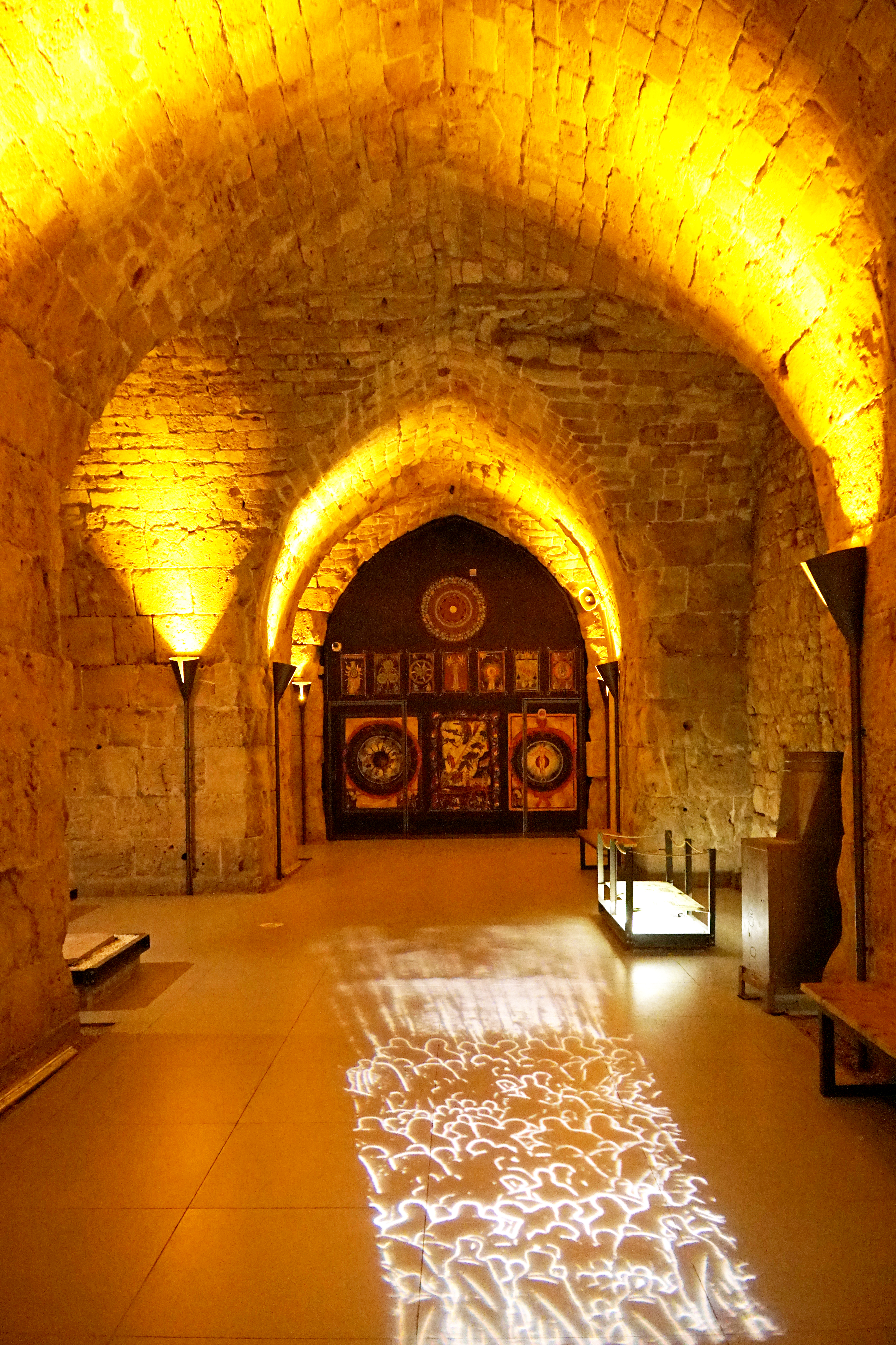 Hospitaller church of St. John was located at the crossroads south of the compound.